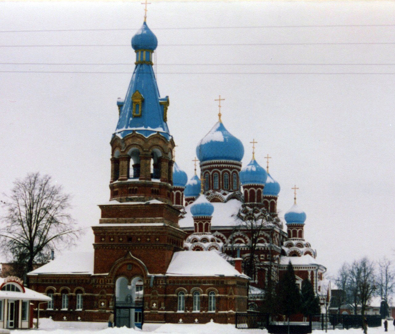 Church of Christ's Resurrection (built on 1874), Barysaŭ, Belarus.